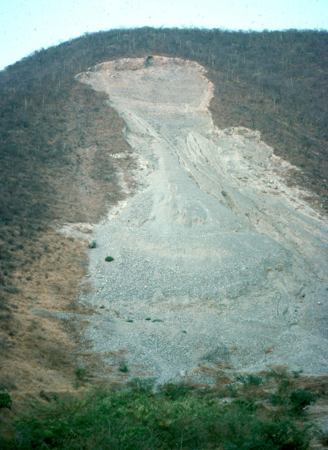 A rock landslide in Guerrero, Mexico. Photo taken in August, 1989. Not home 01:10, 3 May 2007 (UTC)